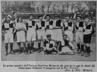 US Milanese in 1909.